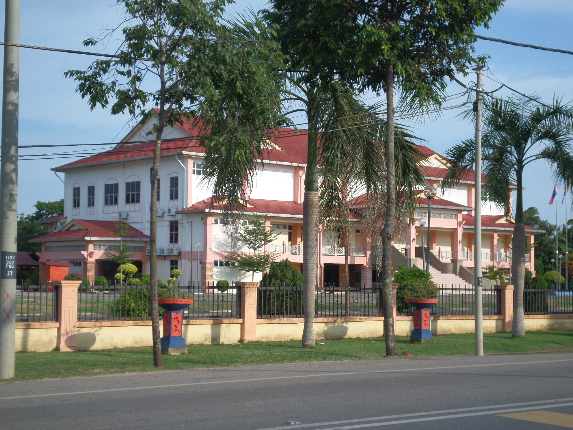 Bukit Gambir Multipurpose Hall, Bukit Gambir, Tangkak, Johor, Malaysia